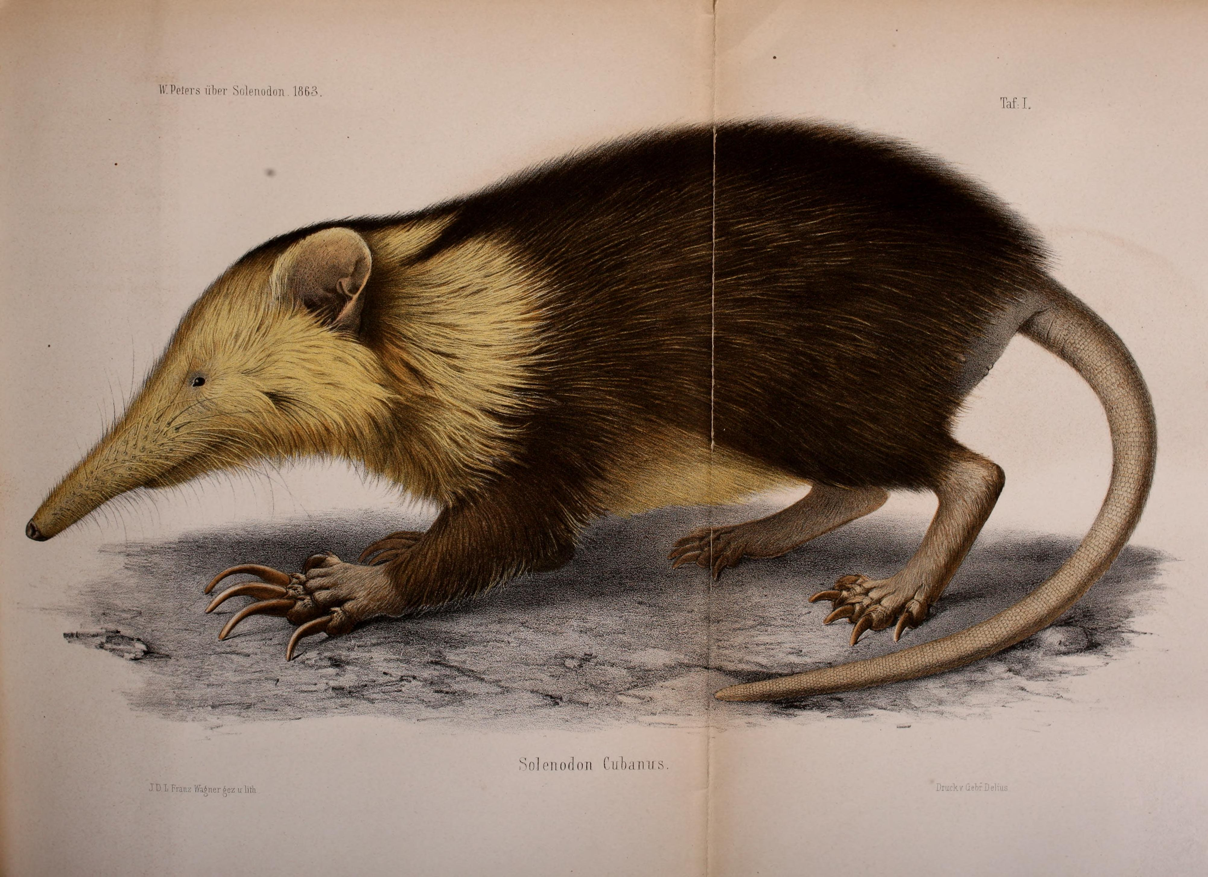 Solenodon cubanus Title: Abhandlungen der Königlichen Akademie der Wissenschaften in Berlin Year: 1822 (1820s) Authors: Deutsche Akademie der Wissenschaften zu Berlin Subjects: Science Publisher: Berlin : Realschul-Buchhandlung Text Appearing Before Image: IV.Pplprs übpr Siilenorloii Ififi- TafJ. Text Appearing After Image: Solenodon cubanus J D L Franz Wagner gez u lith Druck v Gebr Delius